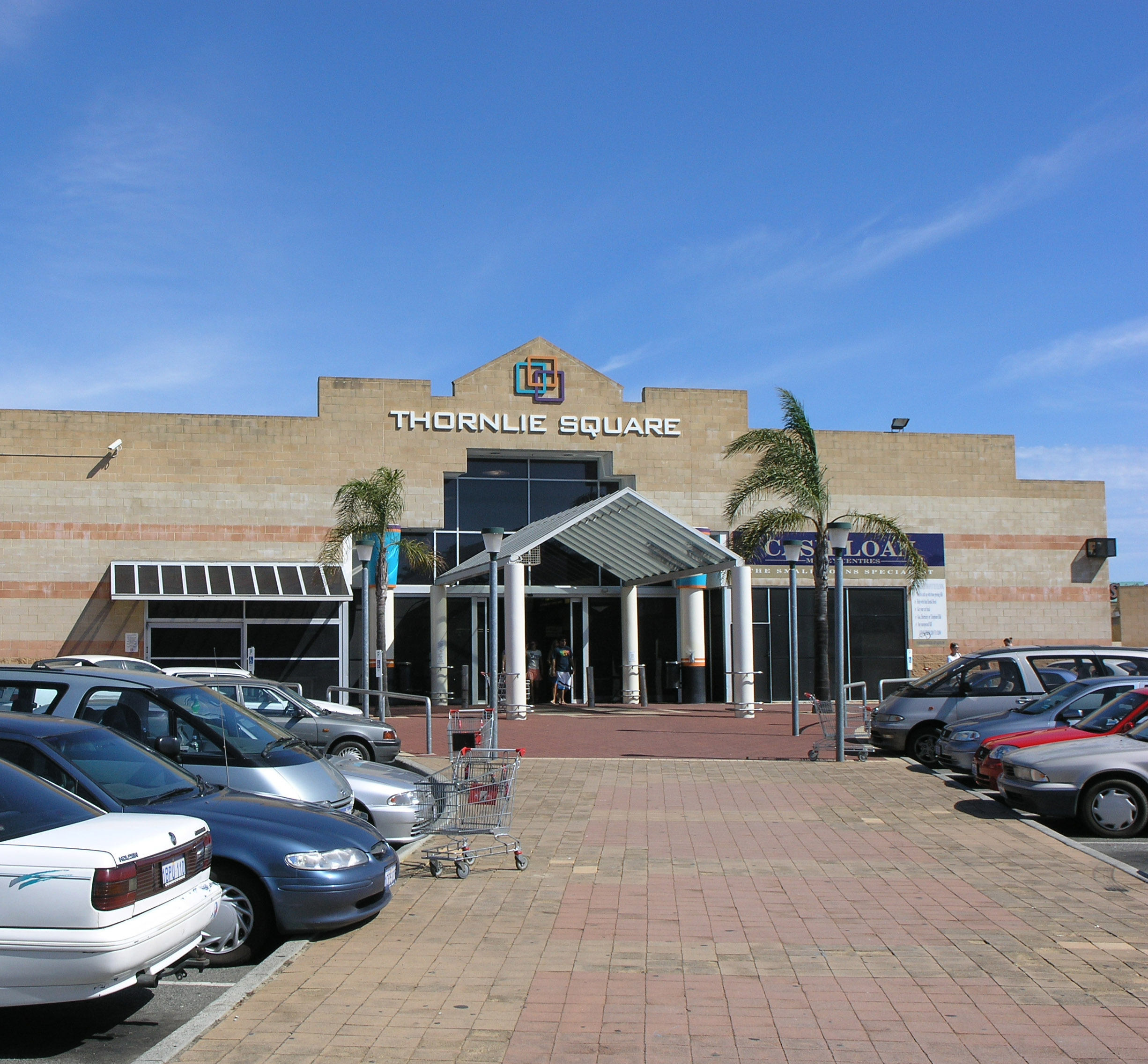 Taken by myself with an Olympus C8080W in March 2007 in Thornlie, Perth, Western Australia. Taken for this page: Thornlie, Western Australia